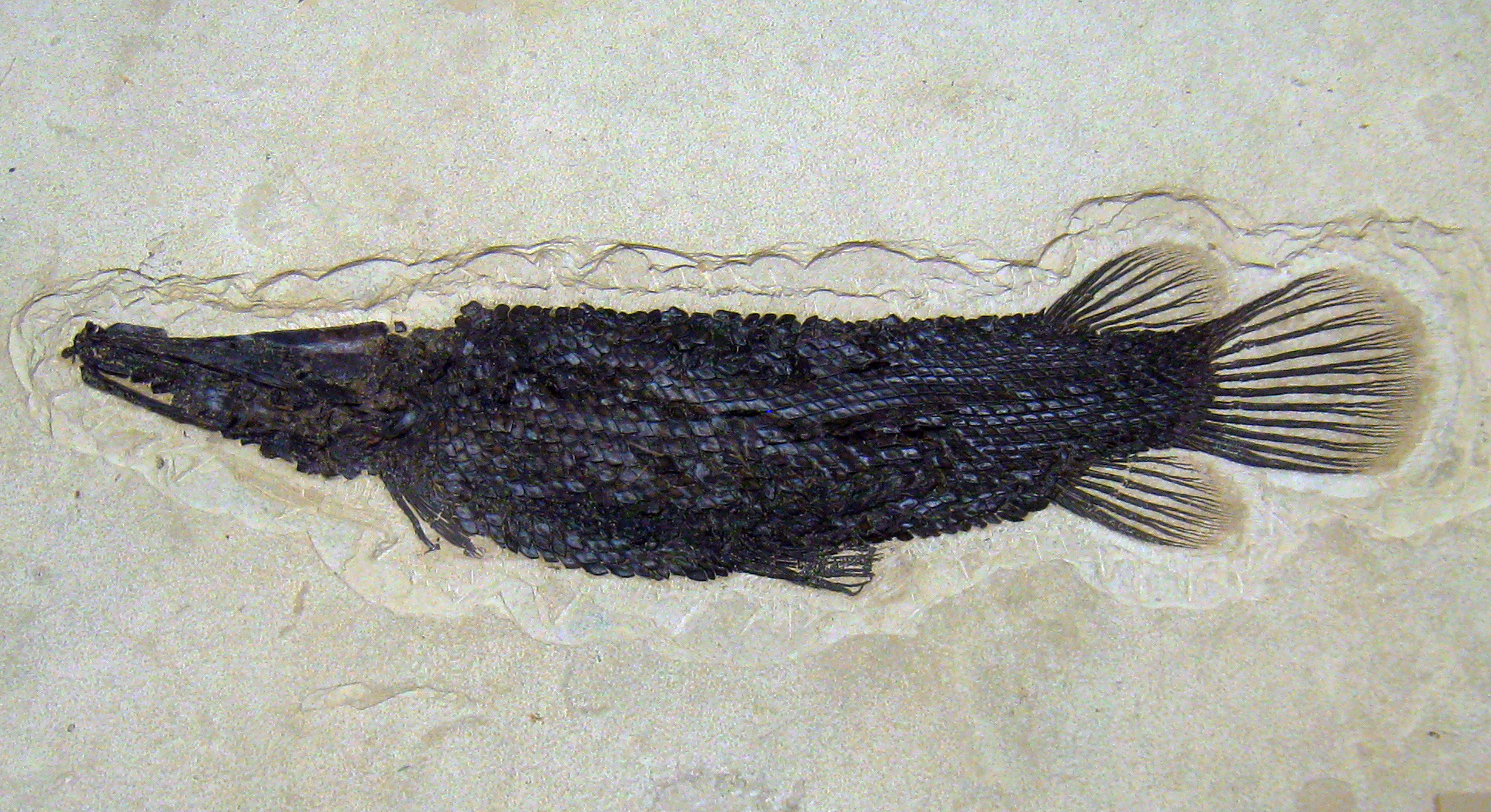 Atractosteus simplex (jr synonym Lepisosteus simplex) fossil in the Utah Museum of Natural History, Salt Lake City, Utah, USA.